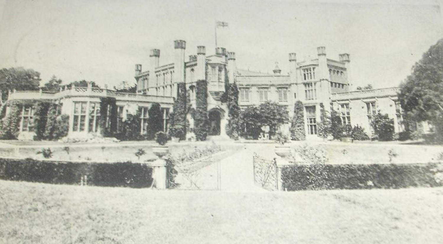 Highcliffe Castle circa 1900